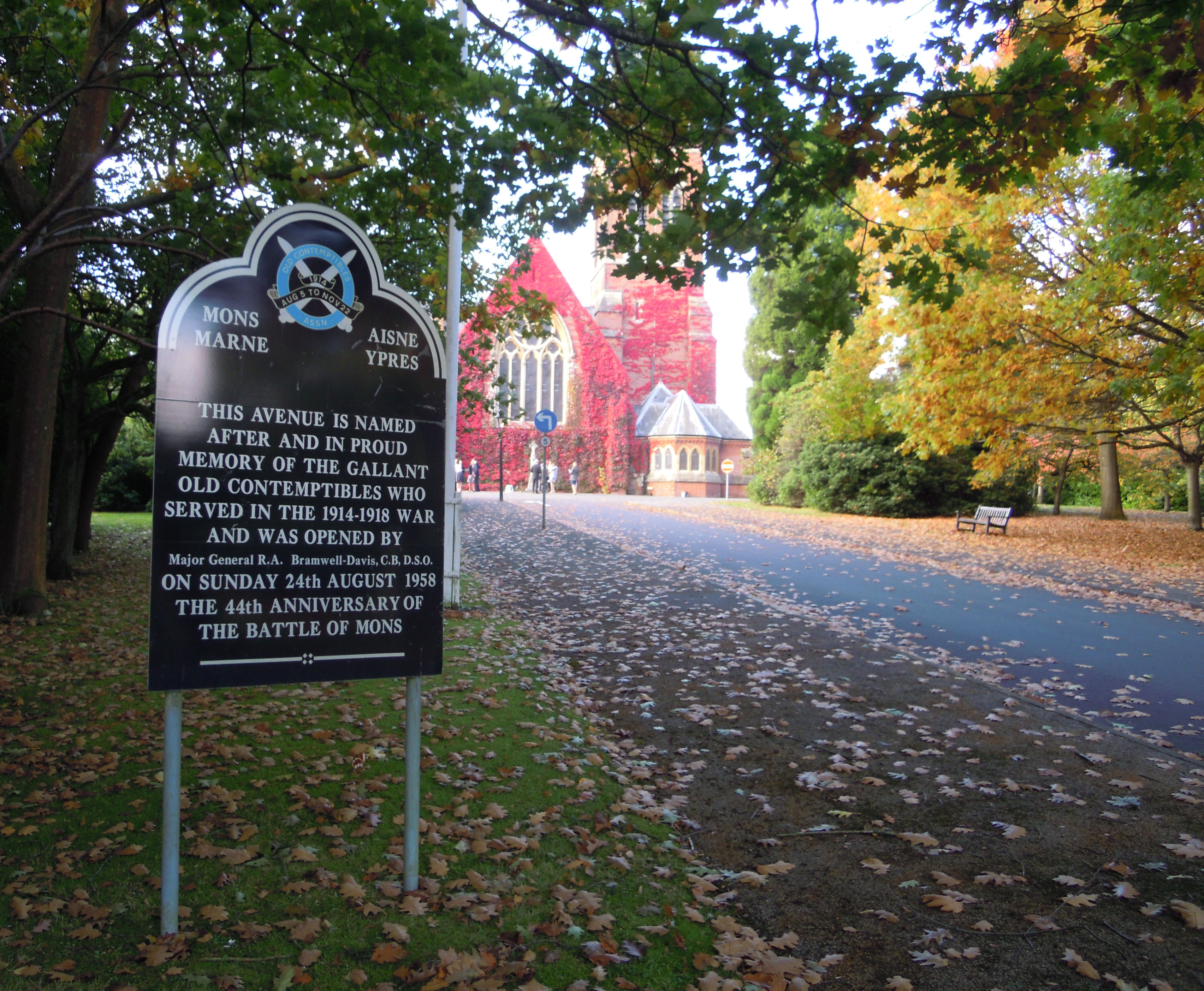 Old Contemptibles Avenue leading to the Royal Garrison Church, Aldershot